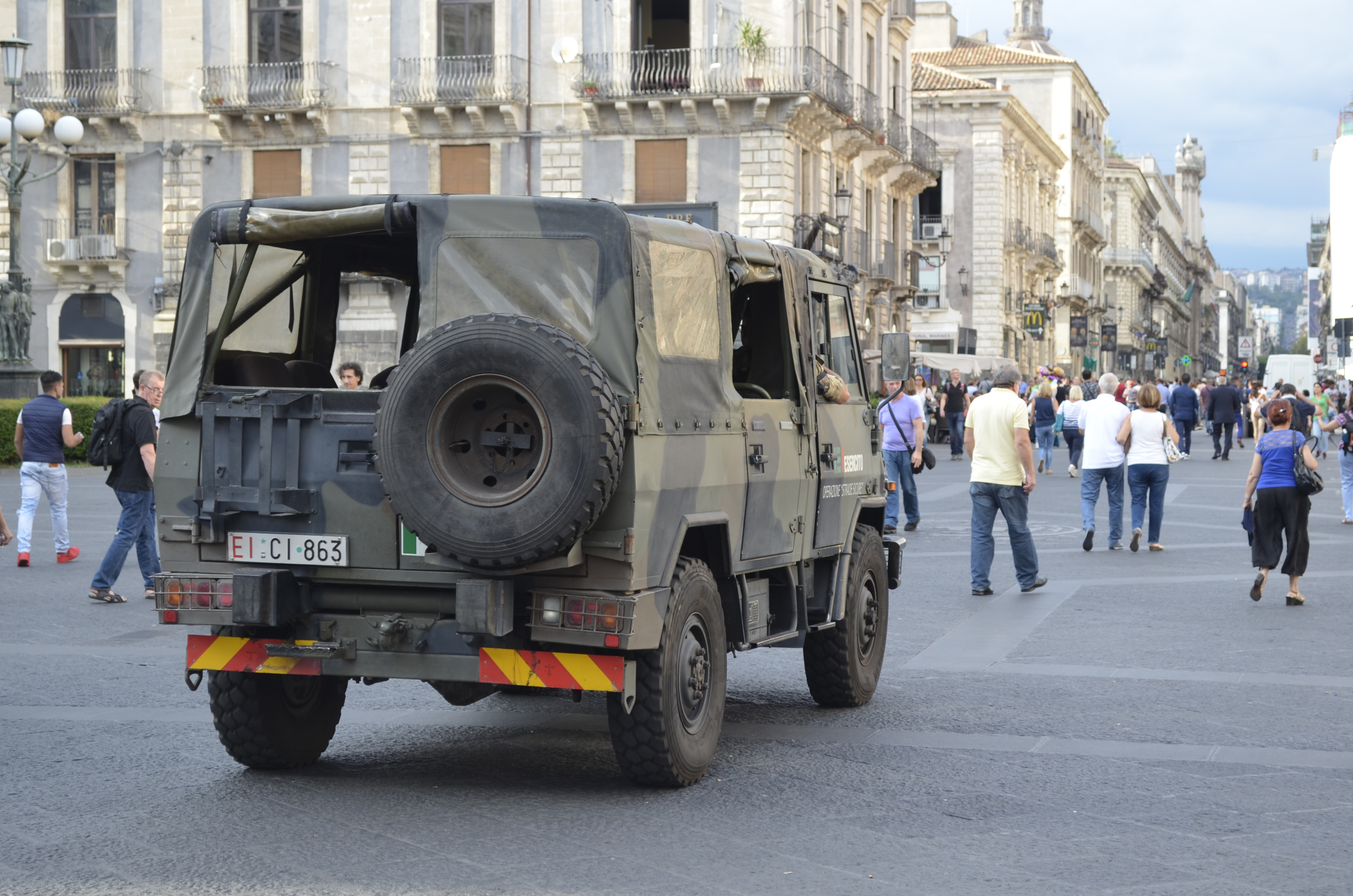 An Esercito truck on patrol in Catania, Sicily (September 2016).